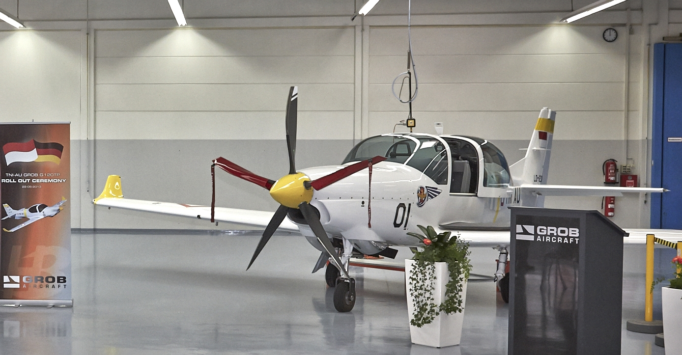 Ceremonial handover of 4 of 18 (plus 14 on option) G 120TP to the indonesian airforce.